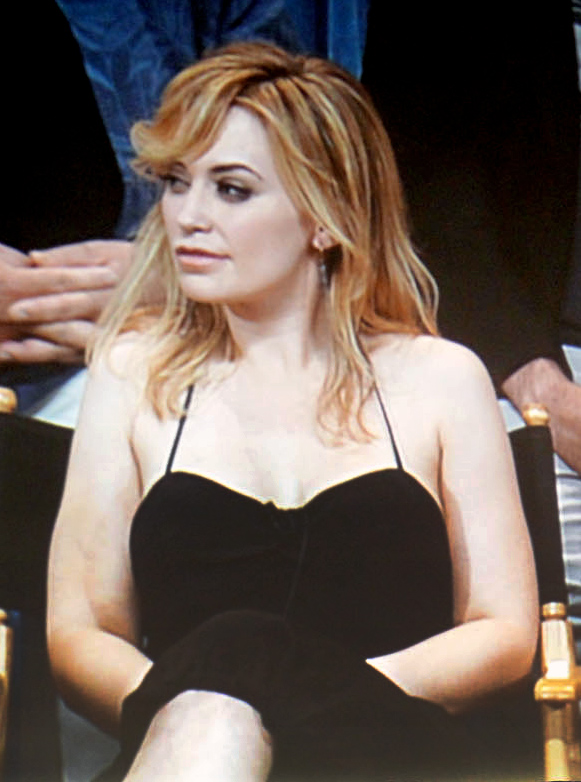 PaleyFest 2011 - Undeclared Reunion - Monica Keena (Rachel Lindquist) and Carla Gallo (Lizzie Exley)]